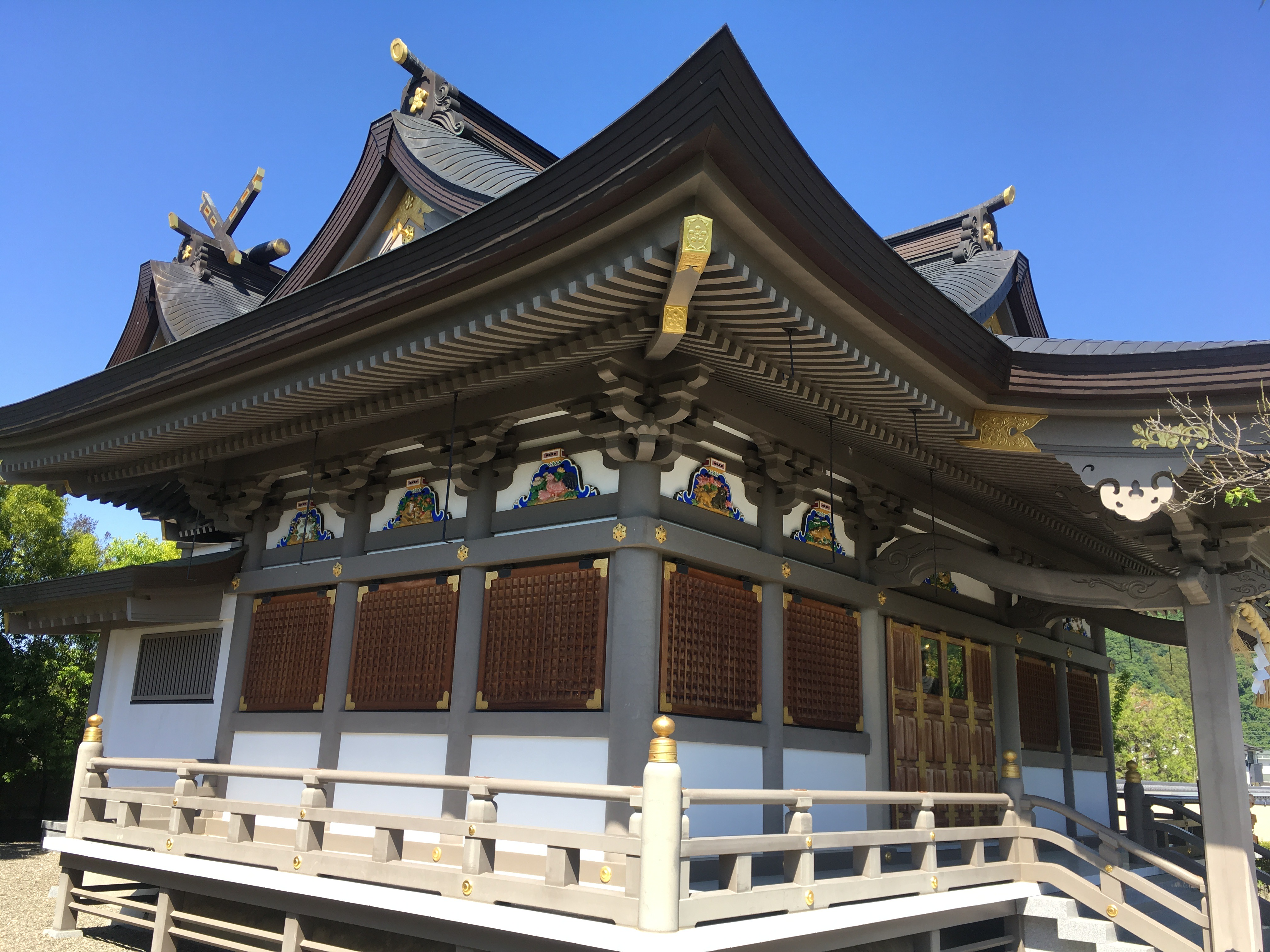 This is a photo of the Yushimatennmangu Branch Shrine in the Wakahowatauchi district of Nagano (city).